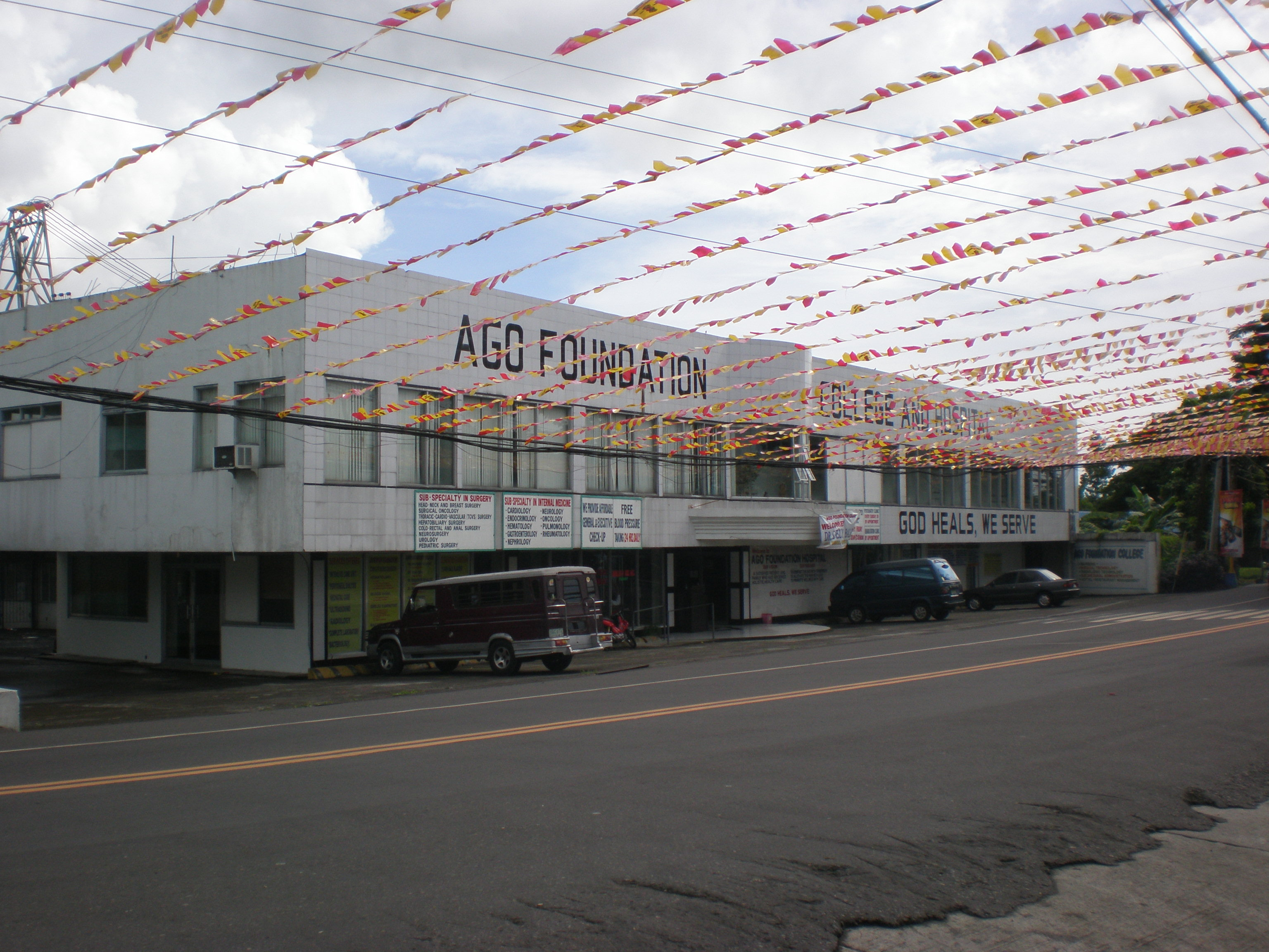 Ago foundation Hospital one of the three four tertiary hospitals in the city of Naga